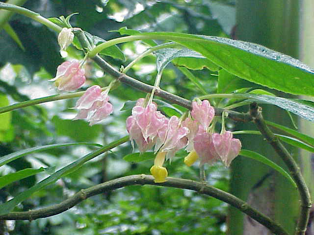 Species: Drymonia sp. Family: Gesneriaceae Image No. 4